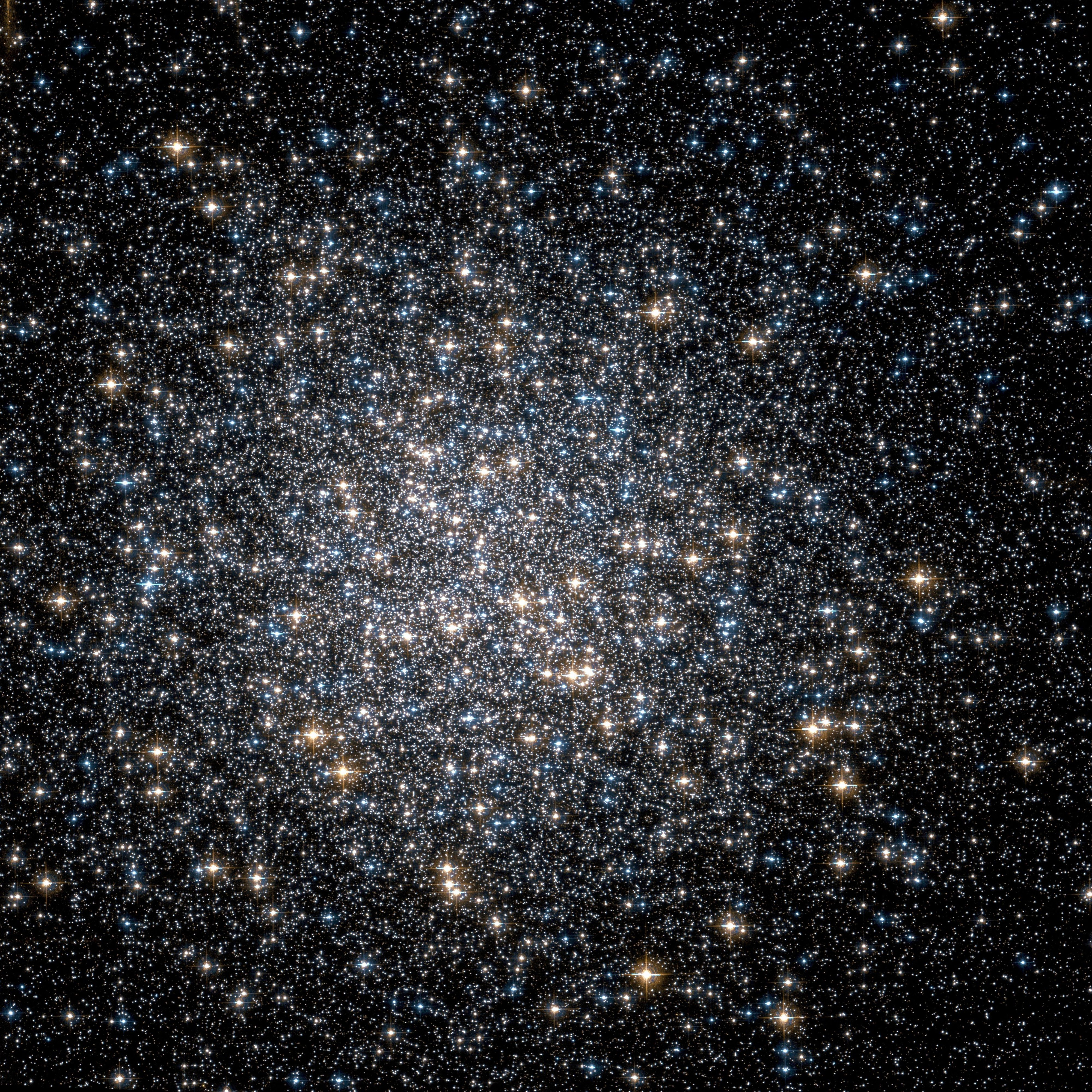 Messier 13 globular cluster from Hubble Space Telescope; 3.3′ view